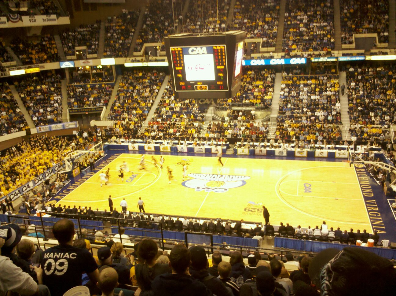 ODU vs VCU in 2011 CAA Final, ODU won 70-65